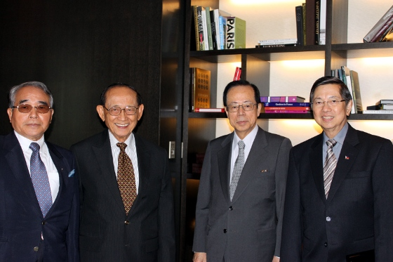 Fidel V. Ramos, Former President, met Yasuo Fukuda, Former Prime Minister, and Ryōki Sugita, Chairman of the Nikkei Inc., with Manuel Lopez, Ambassador to Japan, at the Grand Hyatt Tokyo in Minato Ward, Tōkyō Metropolis on August 3, 2011.